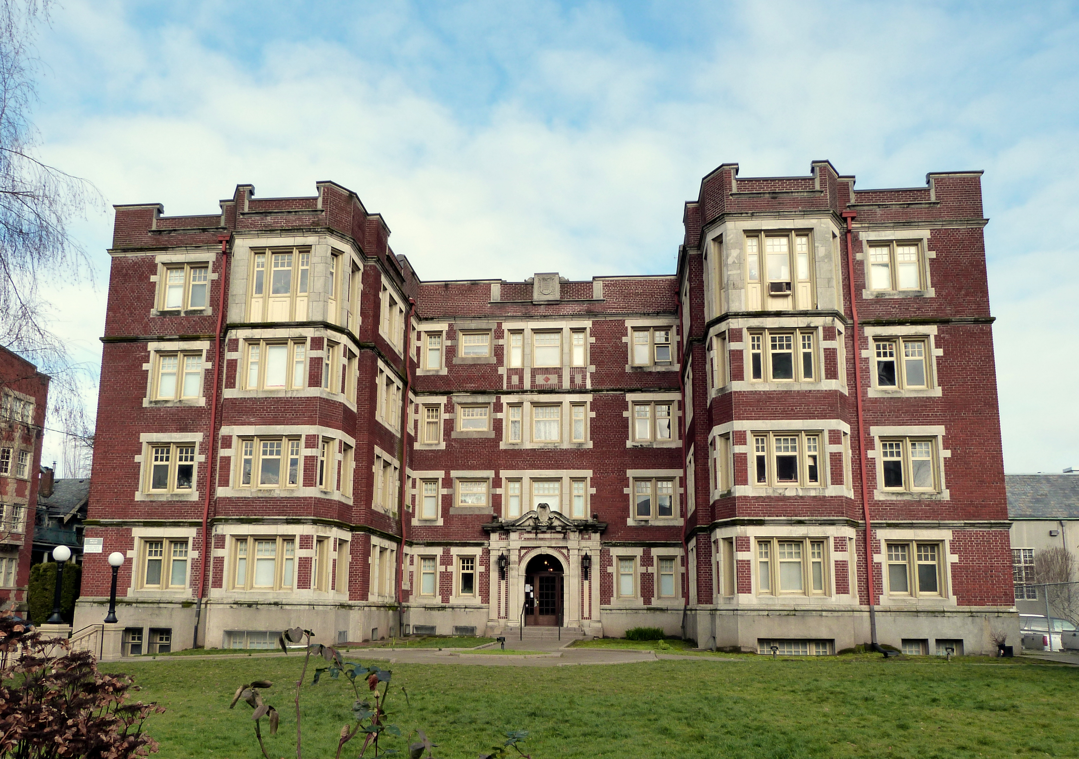 The historic Belle Court Apartments (built 1912) at 120 NW Trinity Place in Portland, Oregon, United States, are listed on the US National Register of Historic Places (NRHP). They are also located in the NRHP-listed Alphabet Historic District.